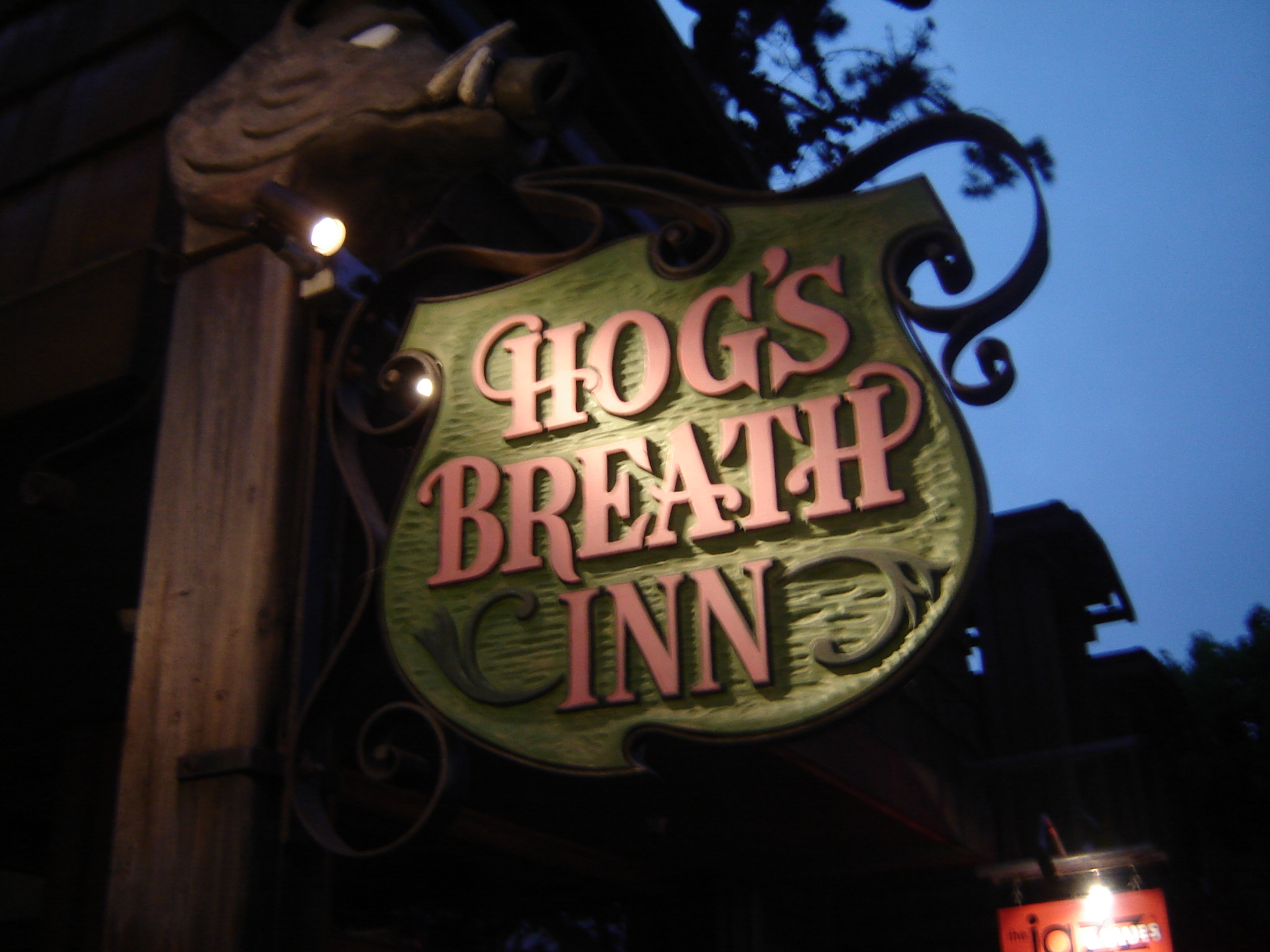 Hog's Breath Inn, Carmel, California. Once owned by Clint Eastwood